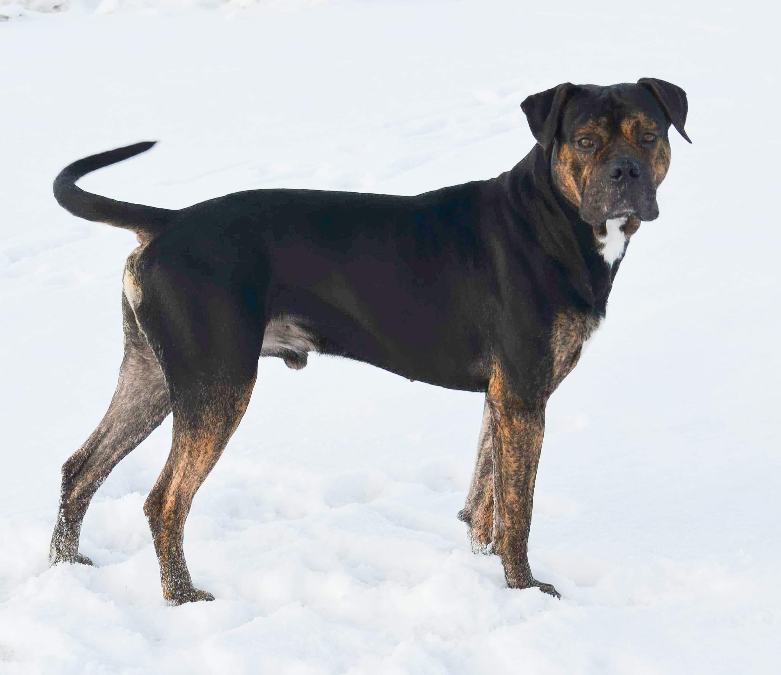 Rare Spanish breed